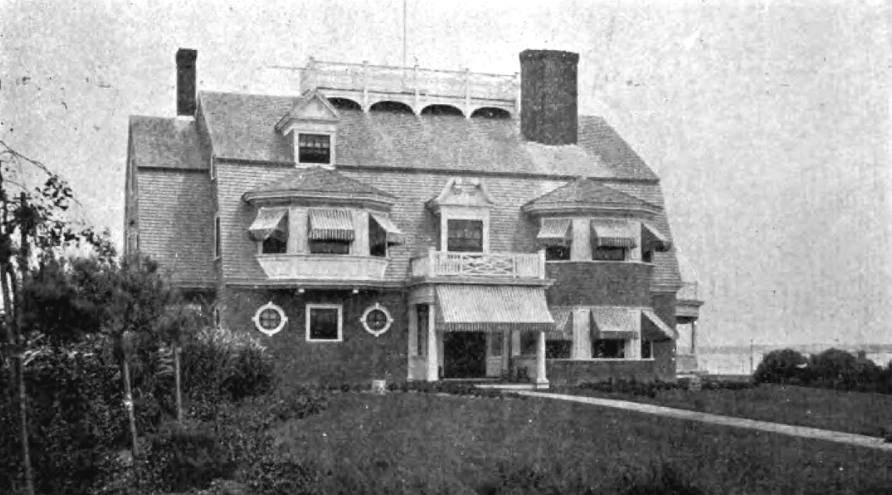 Summer home of Mr and Mrs David C. Nevins, Methuen Massachusetts Circa 1905. Built by the couple in 1894, David Nevins Jr died in 1898, so only Mrs Nevins would have resided here in 1905.